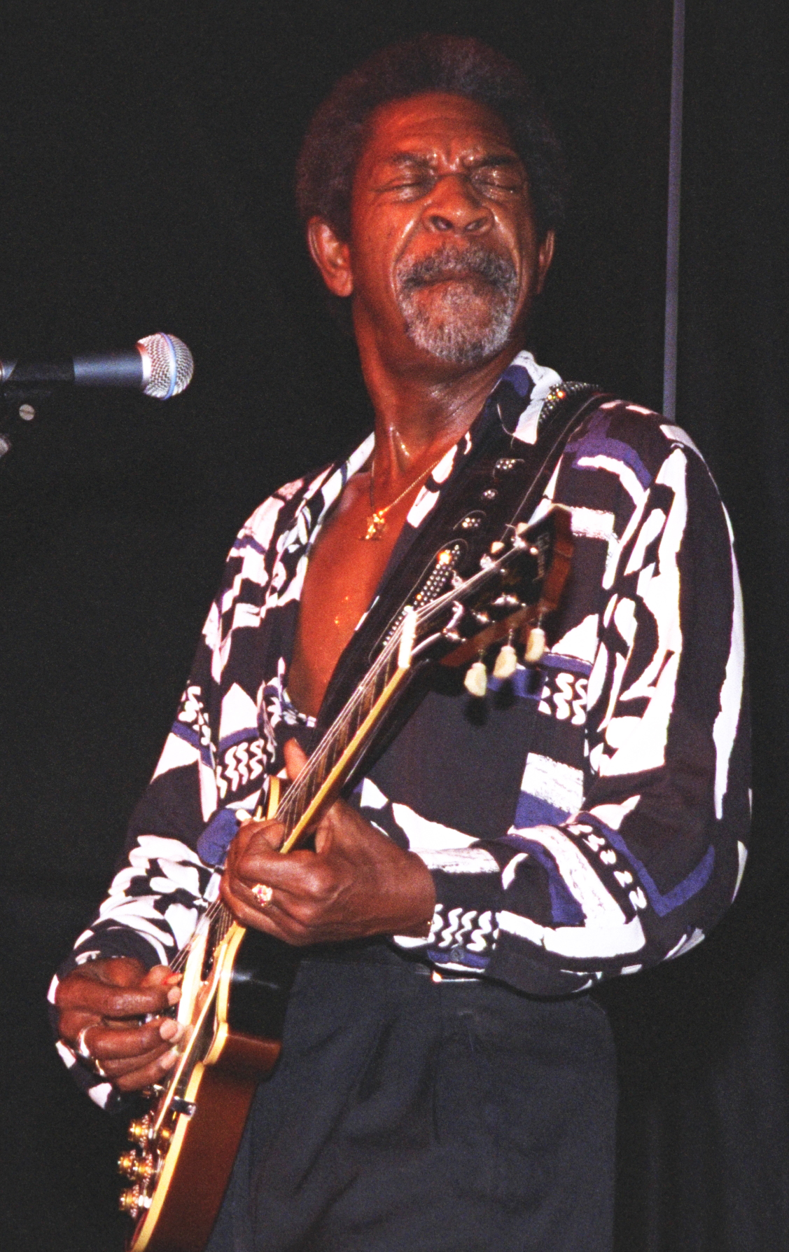 Luther Allison performing at the 1996 Riverwalk Blues Festival.